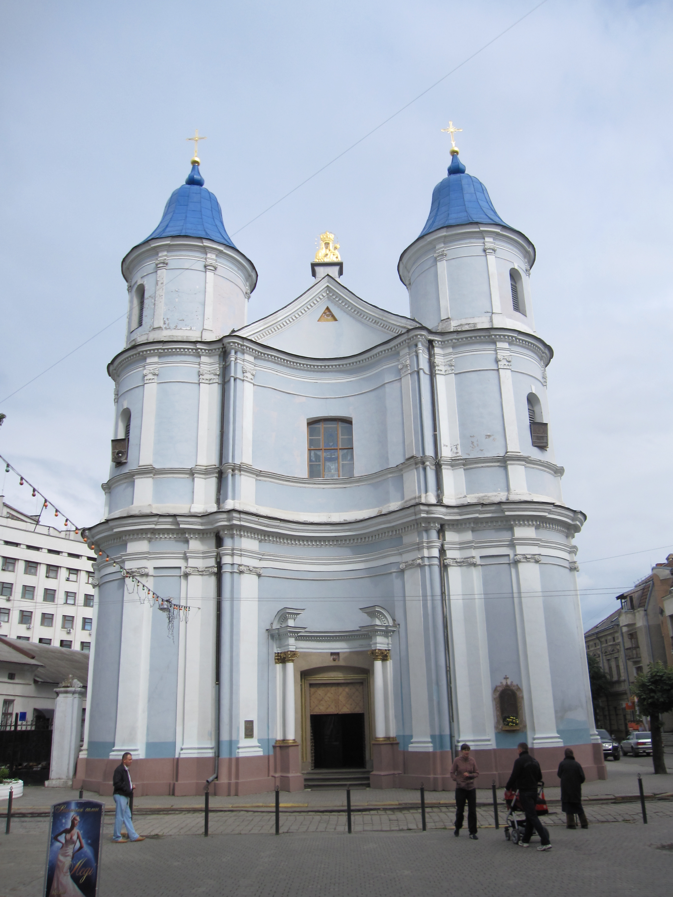 Former Armenian Church in Ivano-Frankivsk (Stanisławów).